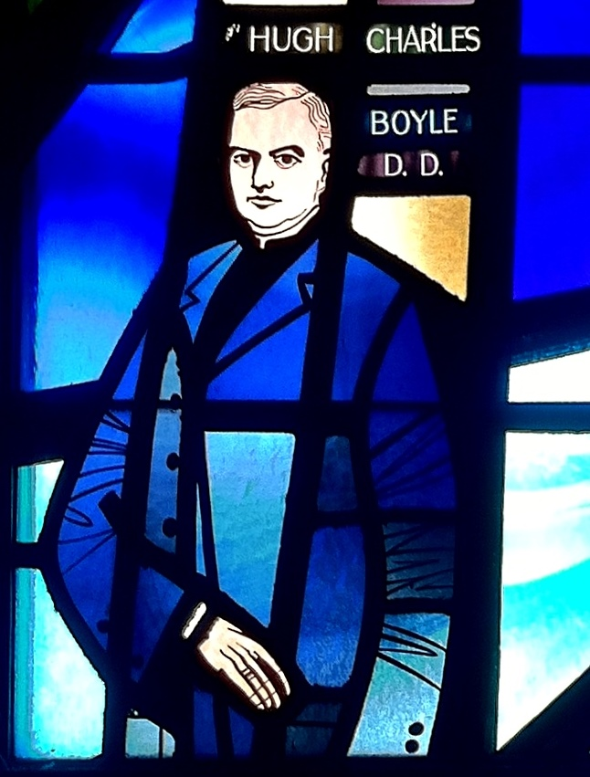 This is a stained glass depiction of Pittsburgh Bishop Hugh C. Boyle. The window is located in Saint Patrick's Roman Catholic Church in Canonsburg, Pennsylvania.